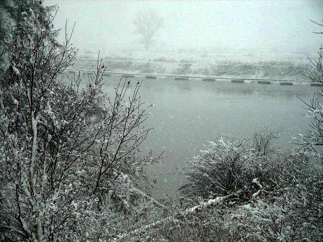 Barato River. Sapporo, Japan.